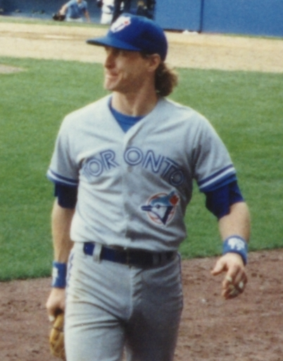 Kelly Gruber at Cleveland Stadium, 1992